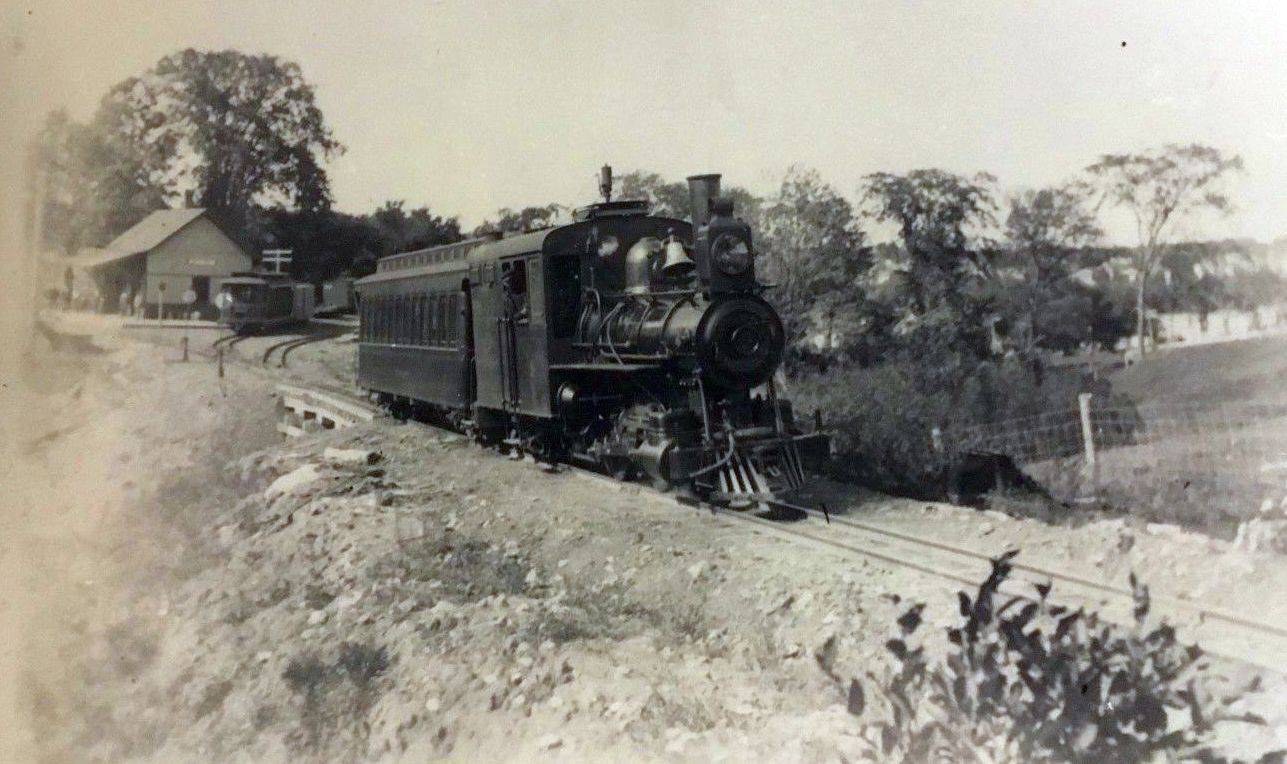 Wiscasset, Waterville and Farmington's 2-foot gauge No. 4 built by H.K. Porter., circa 1905